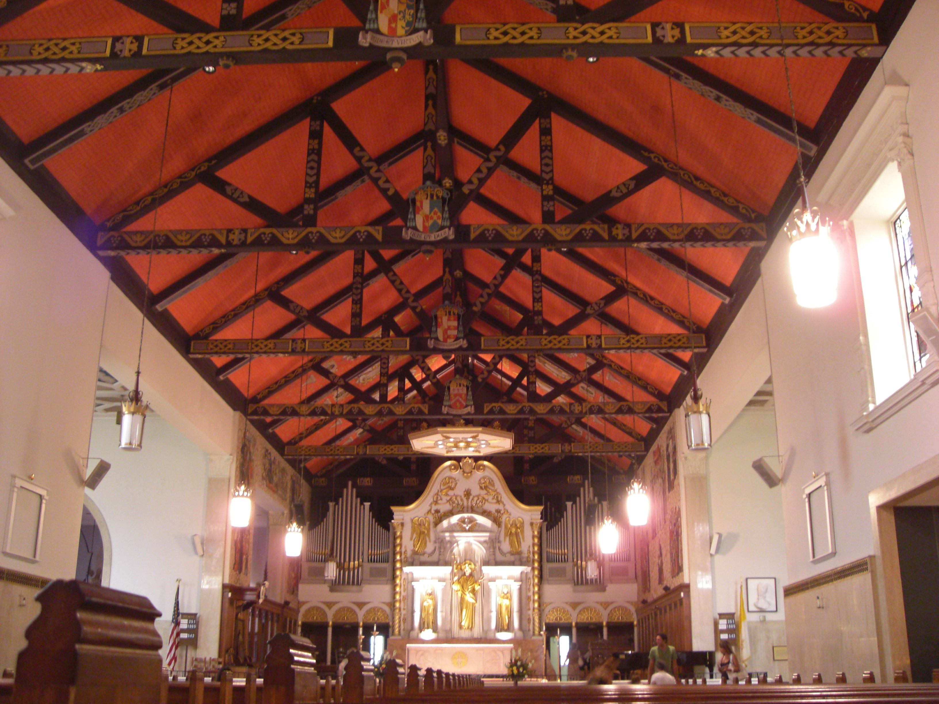 St. Augustine Cathedral, St. Augustine, Florida, USA